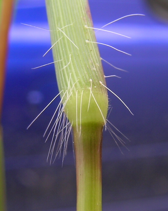 Leaf sheaths are hairy; nodes usually less so.